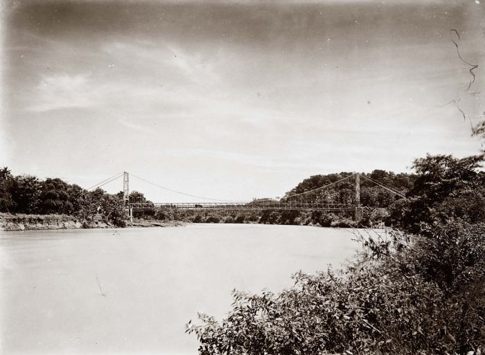 Iron bridge across the Cimandiri river near Wijnkoops Bay